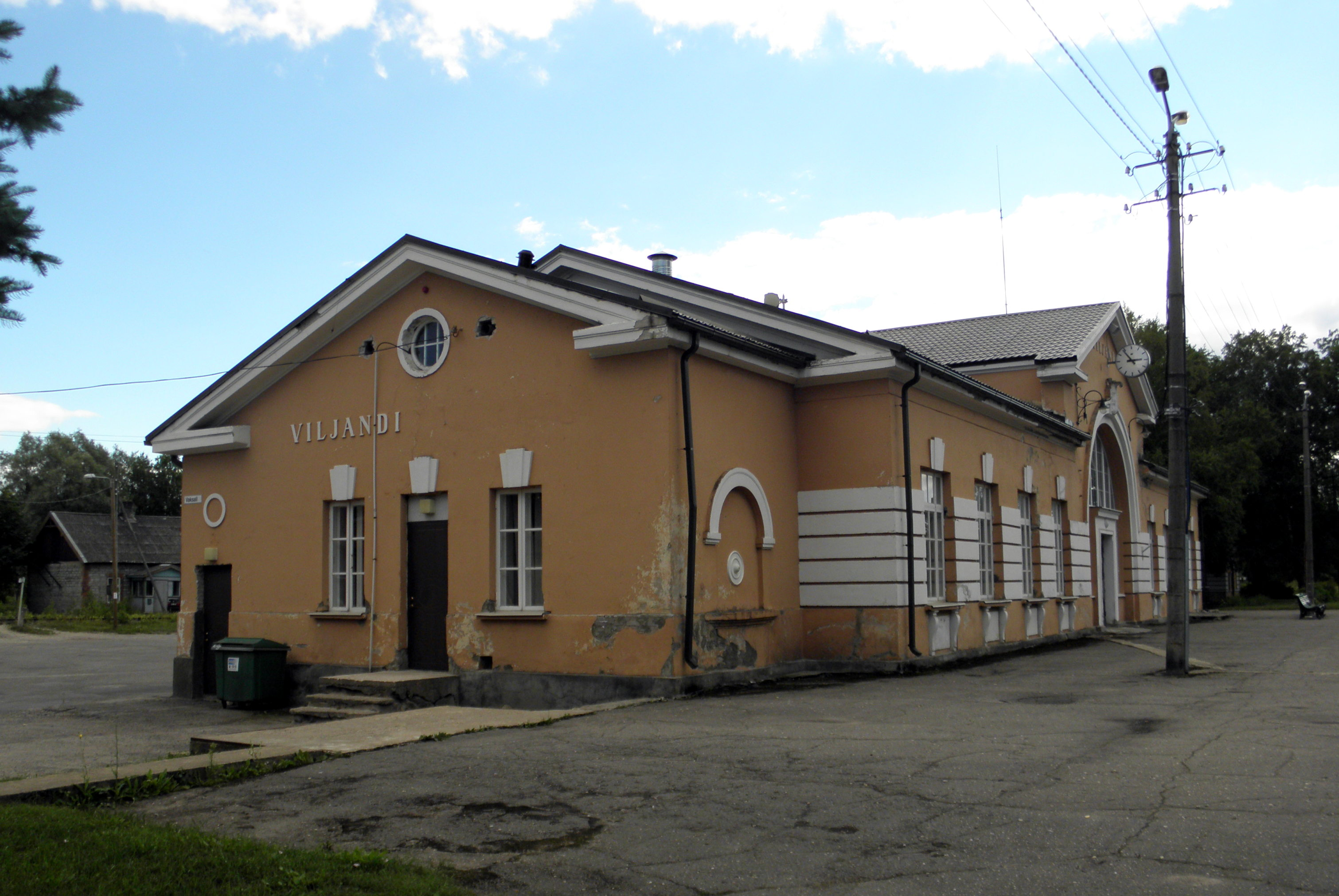 Viljandi railway station, Estonia